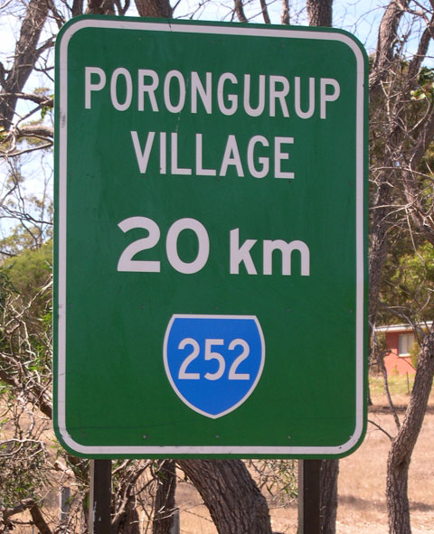 Porongurup Village roadside sign, on eastern boundary of Mount Barker townsite, Western Australia. Photo by Andy Dolphin, 2007.